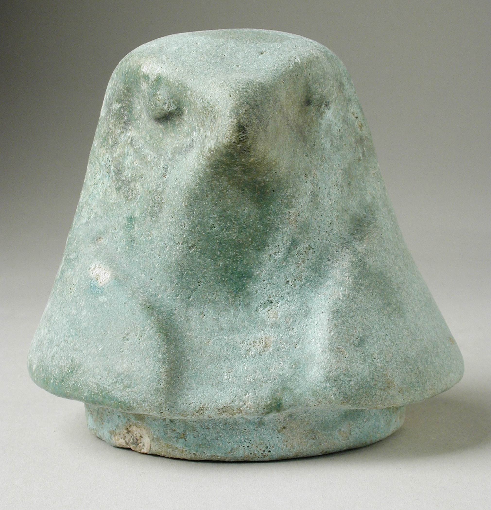 Egypt, probably Late Period (724 - 333 BCE) Furnishings; Serviceware Green faience William Randolph Hearst Collection (51.15.12) Egyptian Art